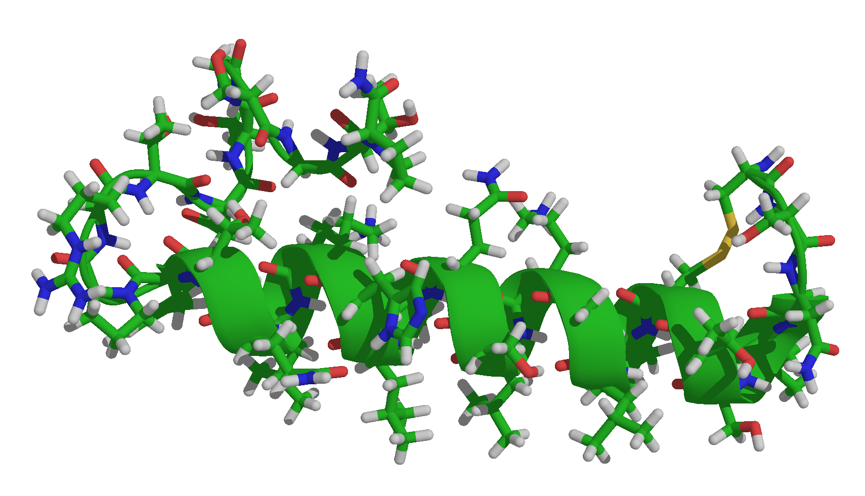 3d structure of salmon calcitonin after PDB 2GLH. Ref.: G.Andreotti et al. (2006). Structural determinants of salmon calcitonin bioactivity: the role of the Leu-based amphipathic alpha-helix.. J Biol Chem, 281, 24193-24203. PMID 16766525 [